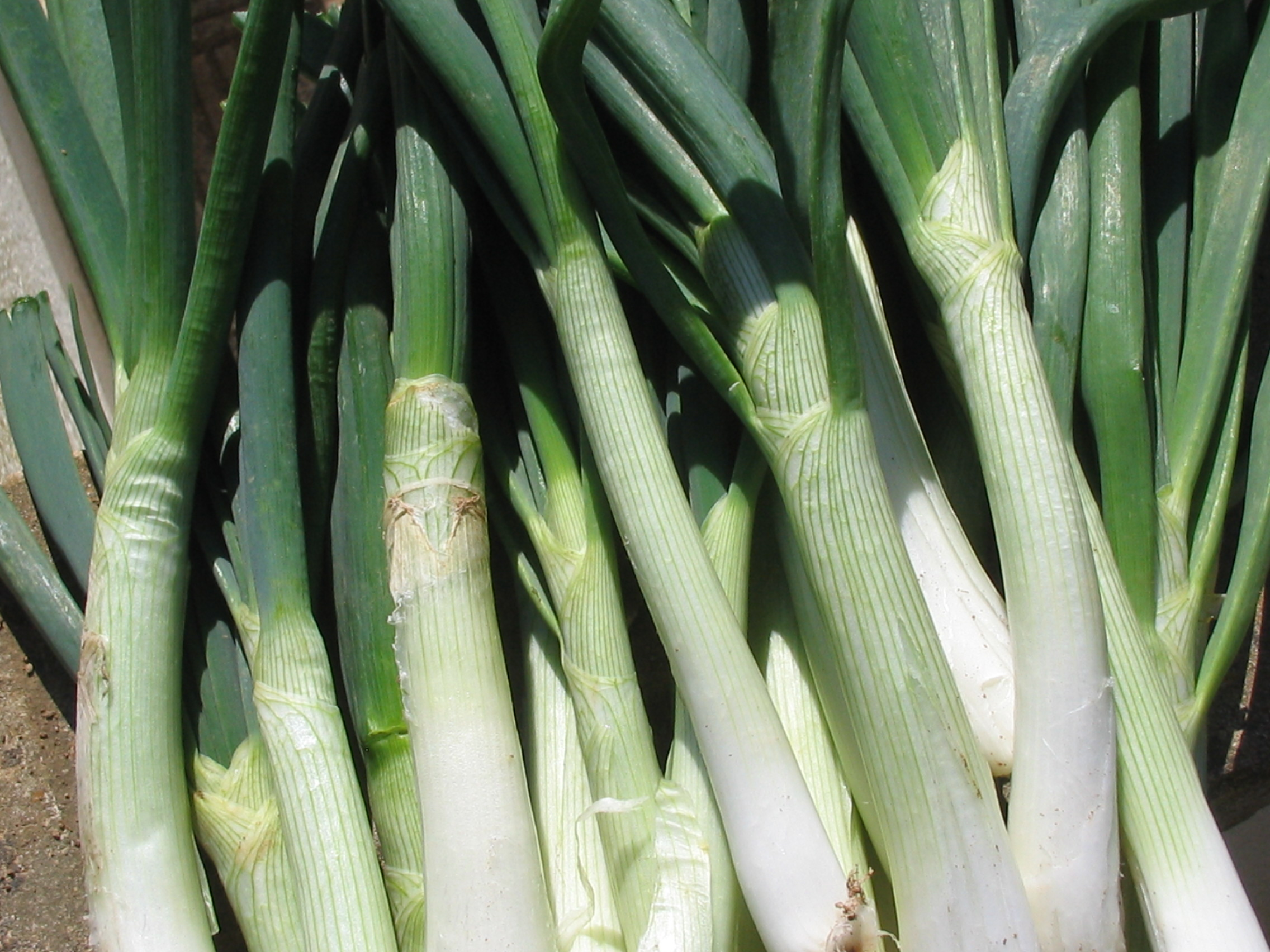 Bundle of spanish chives.